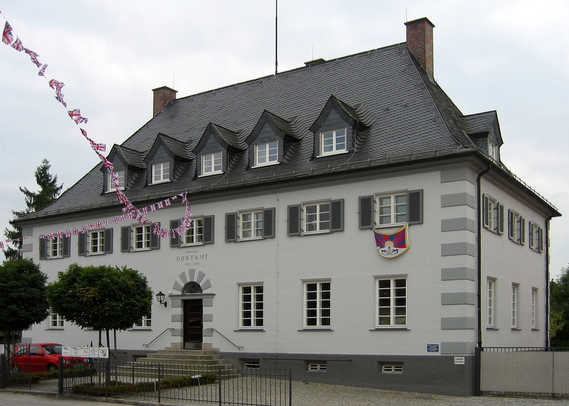 Old post office Dießen am Ammersee